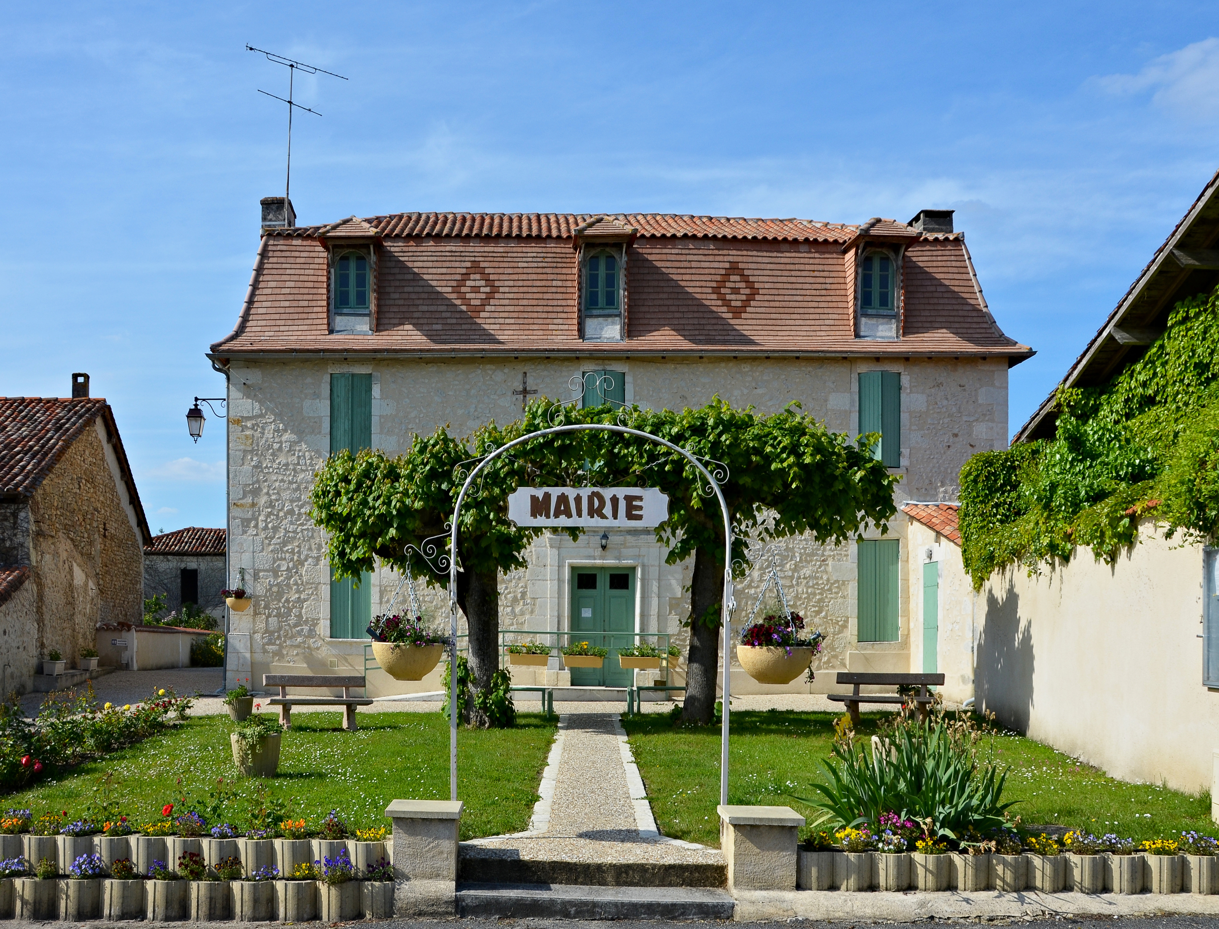 Town hall of Chenaud, Dordogne, France.